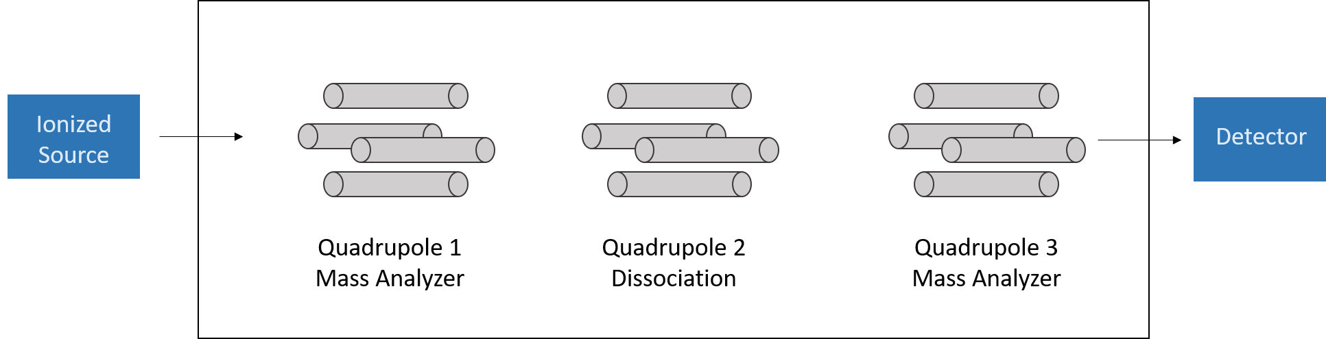 Block Diagram of QQQ MS